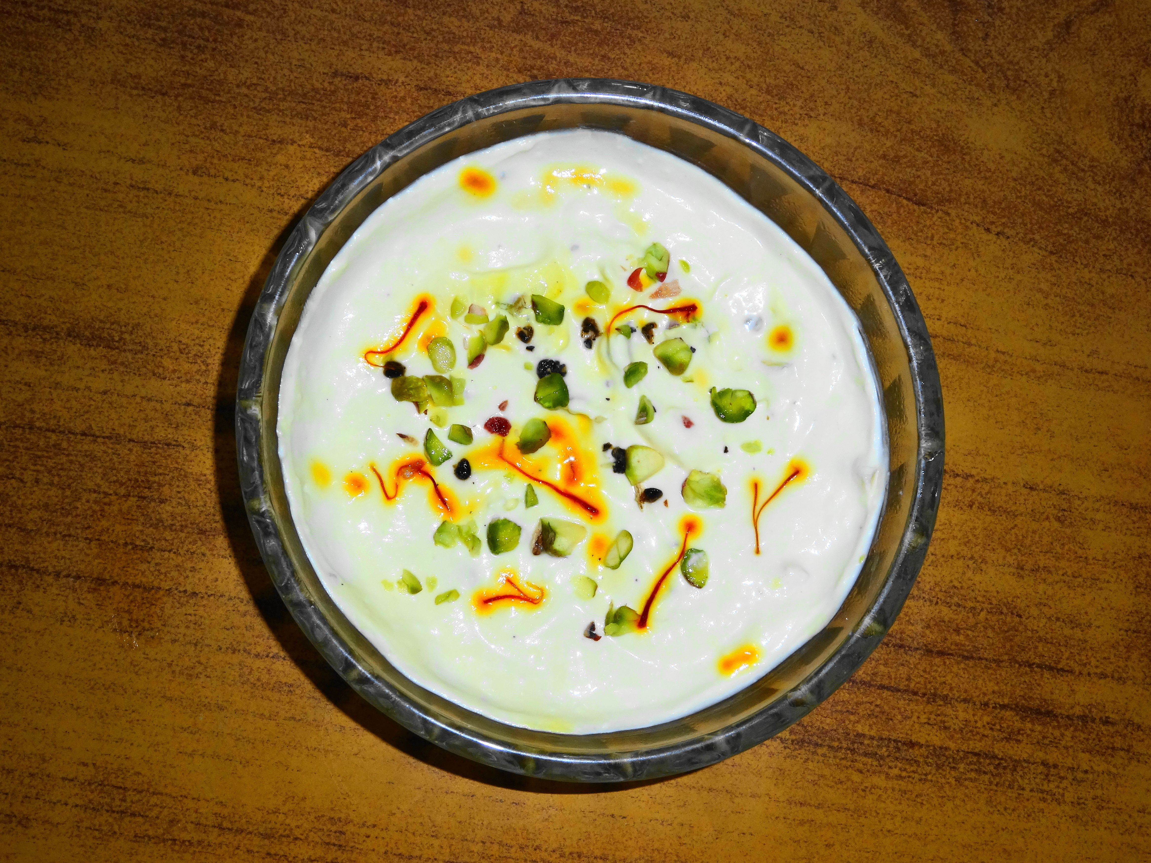 Shrikhand is a delicious dessert from Maharashtrian Cuisine and Gujrati Cuisine of India